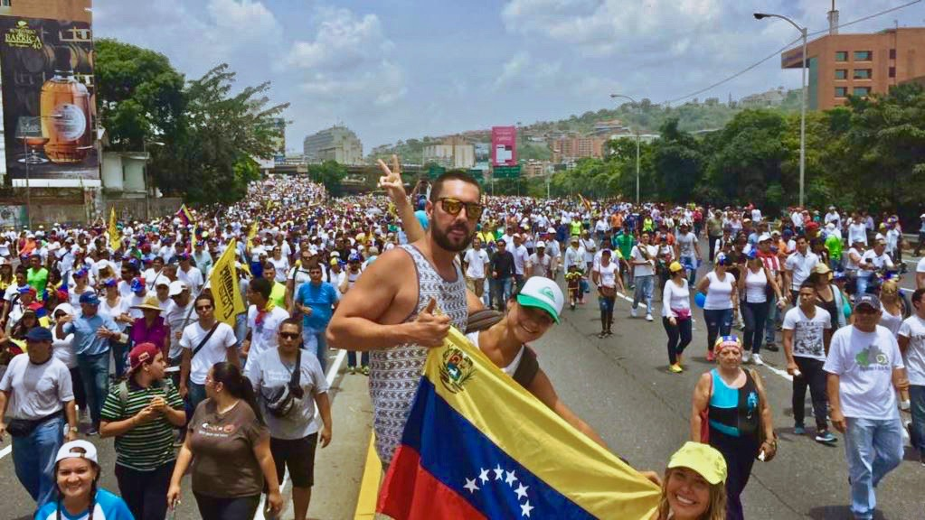 Opposition protesters holding a Venezuelan flag during the Mother of All Marches. Image is facing east on Francisco Fajardo Highway.